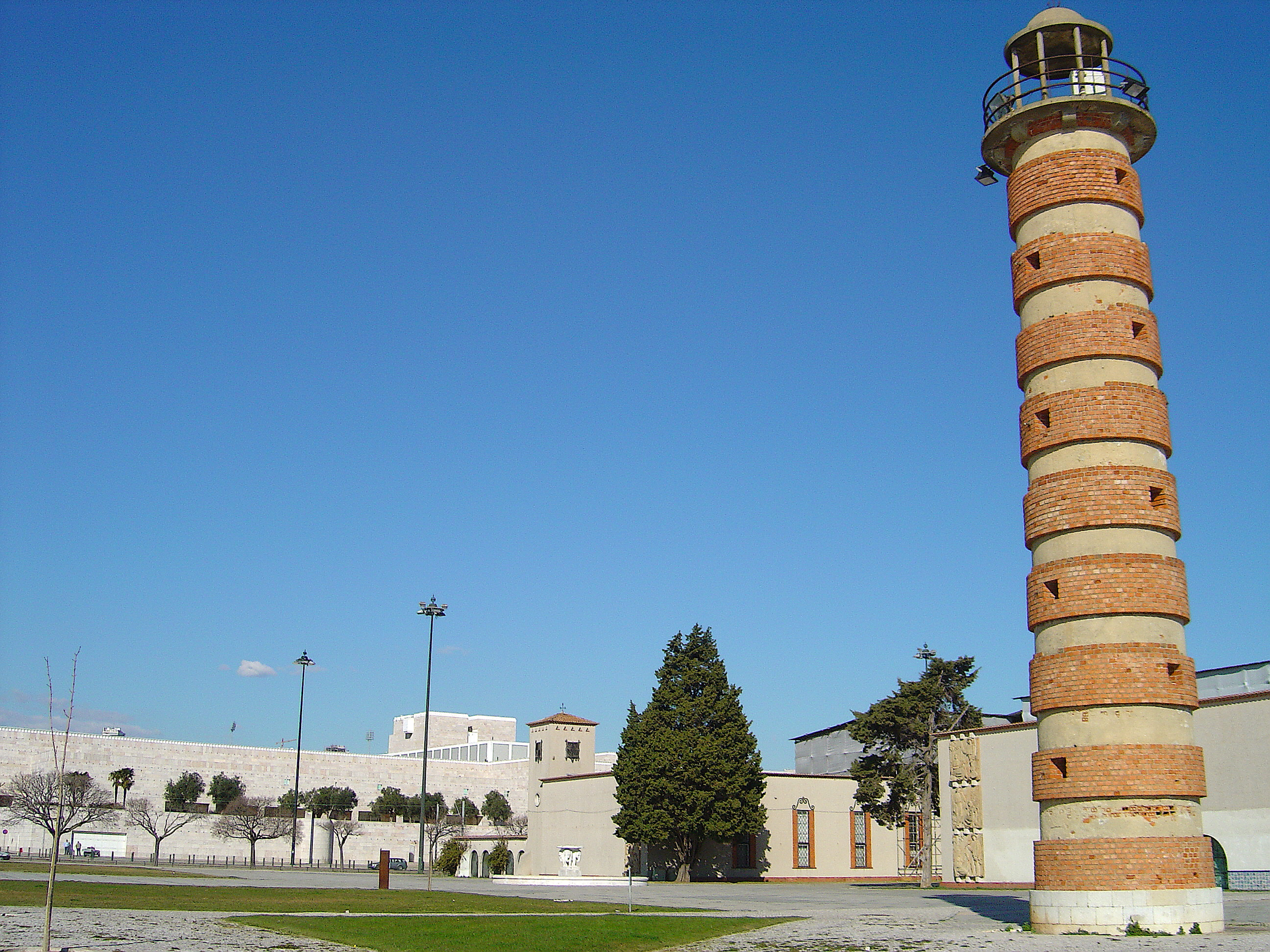 See where this picture was taken. [?]